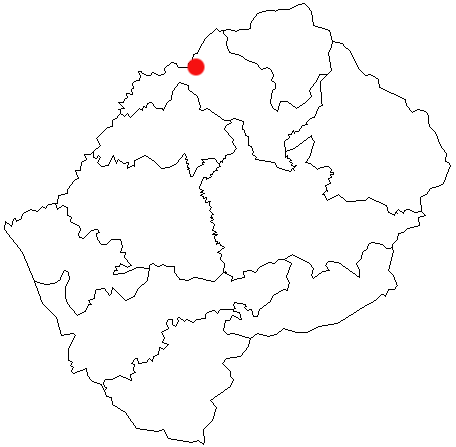 Hlotse, Lesotho Location Map; created with the GIMP. Made by User:Acntx.